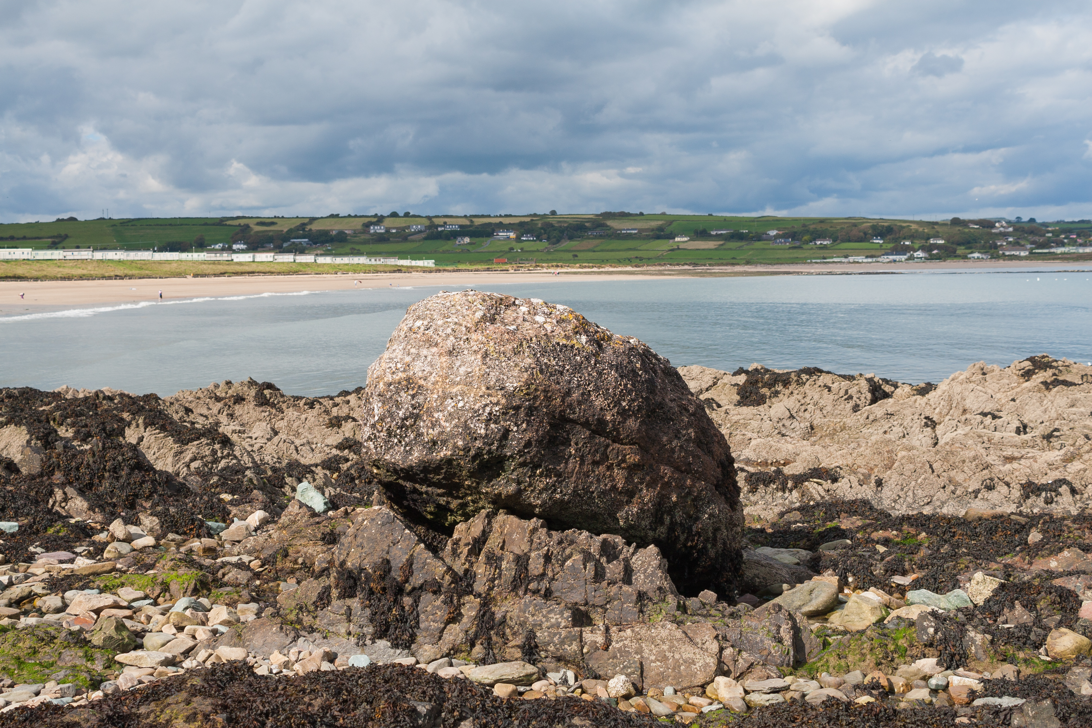 A close information panel reads: “Geologically different from other rocks in the area, St. Declan’s Stone, according to ancient folklore, miraculously floated across the ocean, carrying St. Declan’s Bell after his servant forgot to pack it. He decreed that whereever the stome came to rest, would be the place, where he would set his Episcopal residence and hence Ardmore became Ireland’s first Christian settlement in the early 5th Century. Numerous healing virtues are attributed to it and it is a place of special interest on St. Declan’s Patron Day, July 24th each year.”